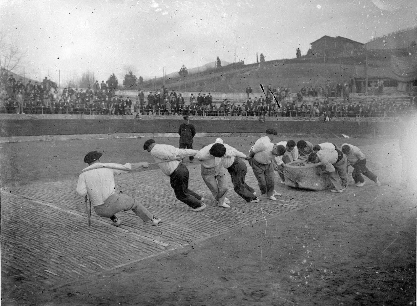 Eleven Basque men pulling a 4 ton stone in a giza proba